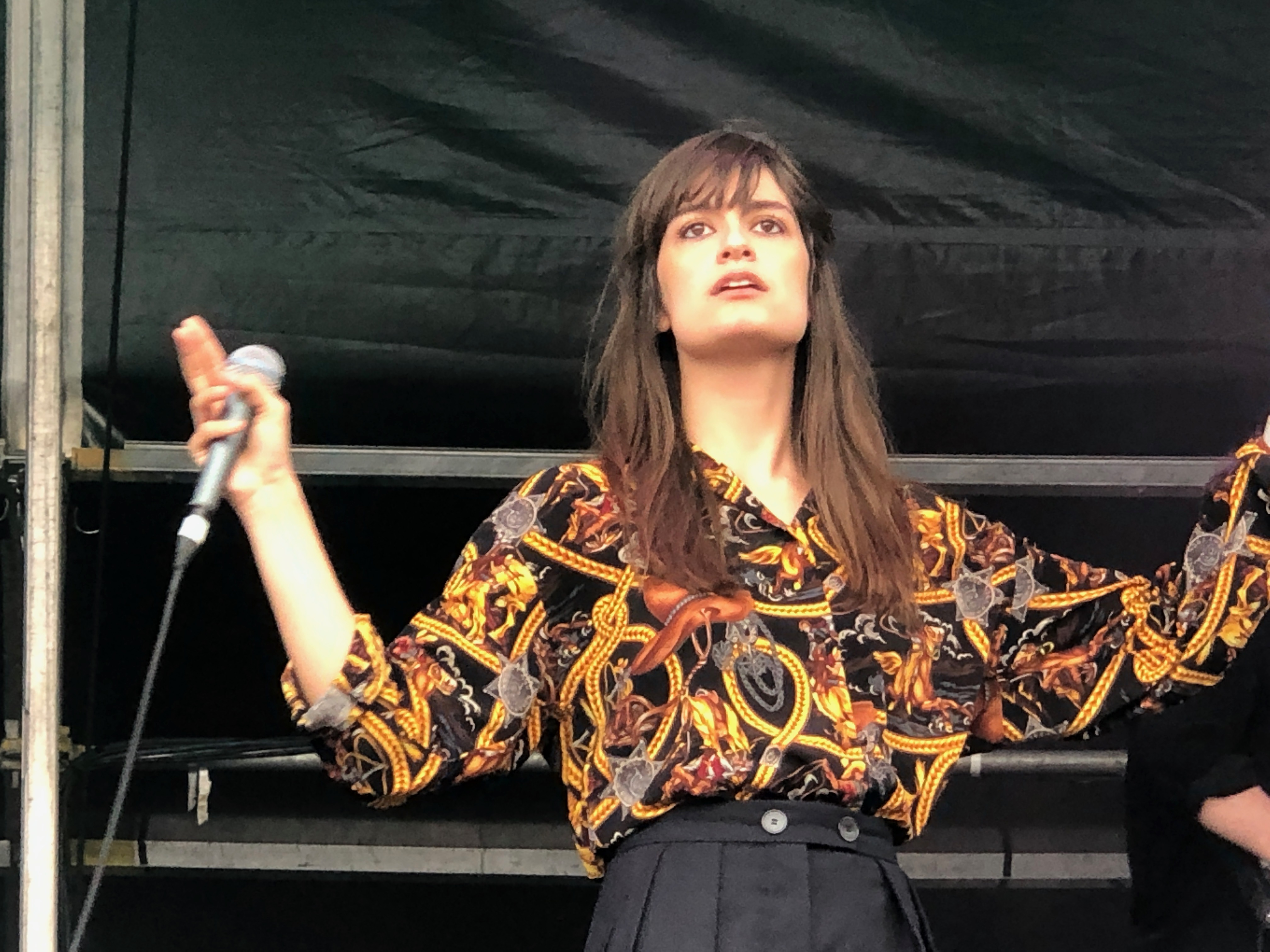 A photo of French singer Clara Luciani performing at the So Frenchy So Chic festival in Sydney in January 2019